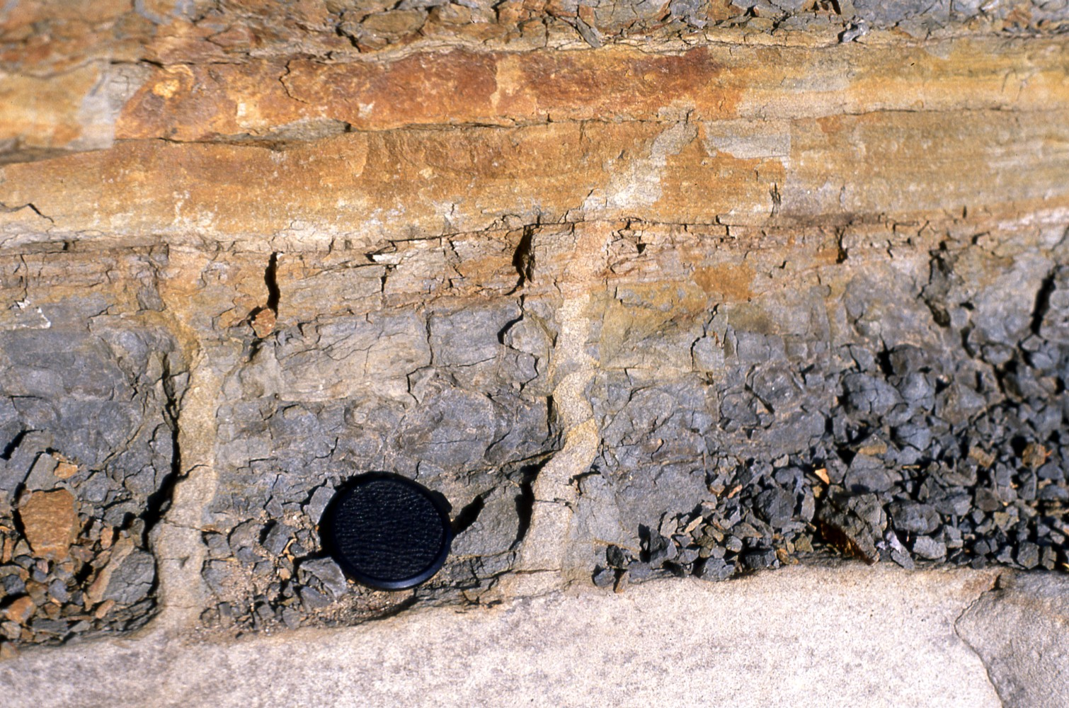 Cozy Dell Formation — De-watering pillars above a high-density turbidite. In the Topatopa Mountains, Ventura County, Southern California.